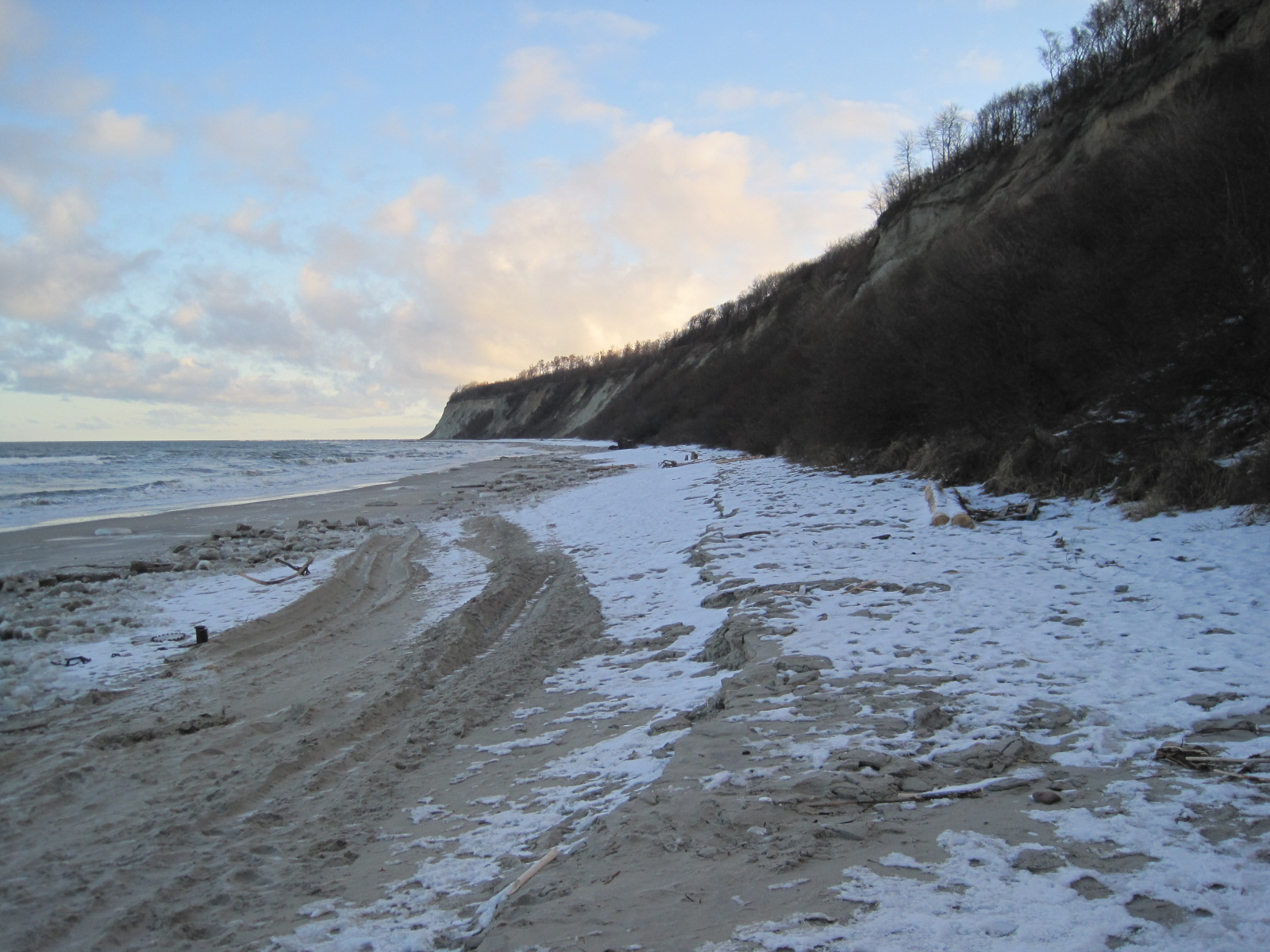 Donskoye beach, view to the north.